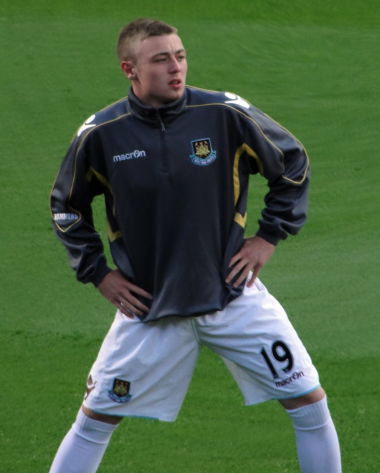 West Ham's Freddie Sears before League Cup game v Oxford United